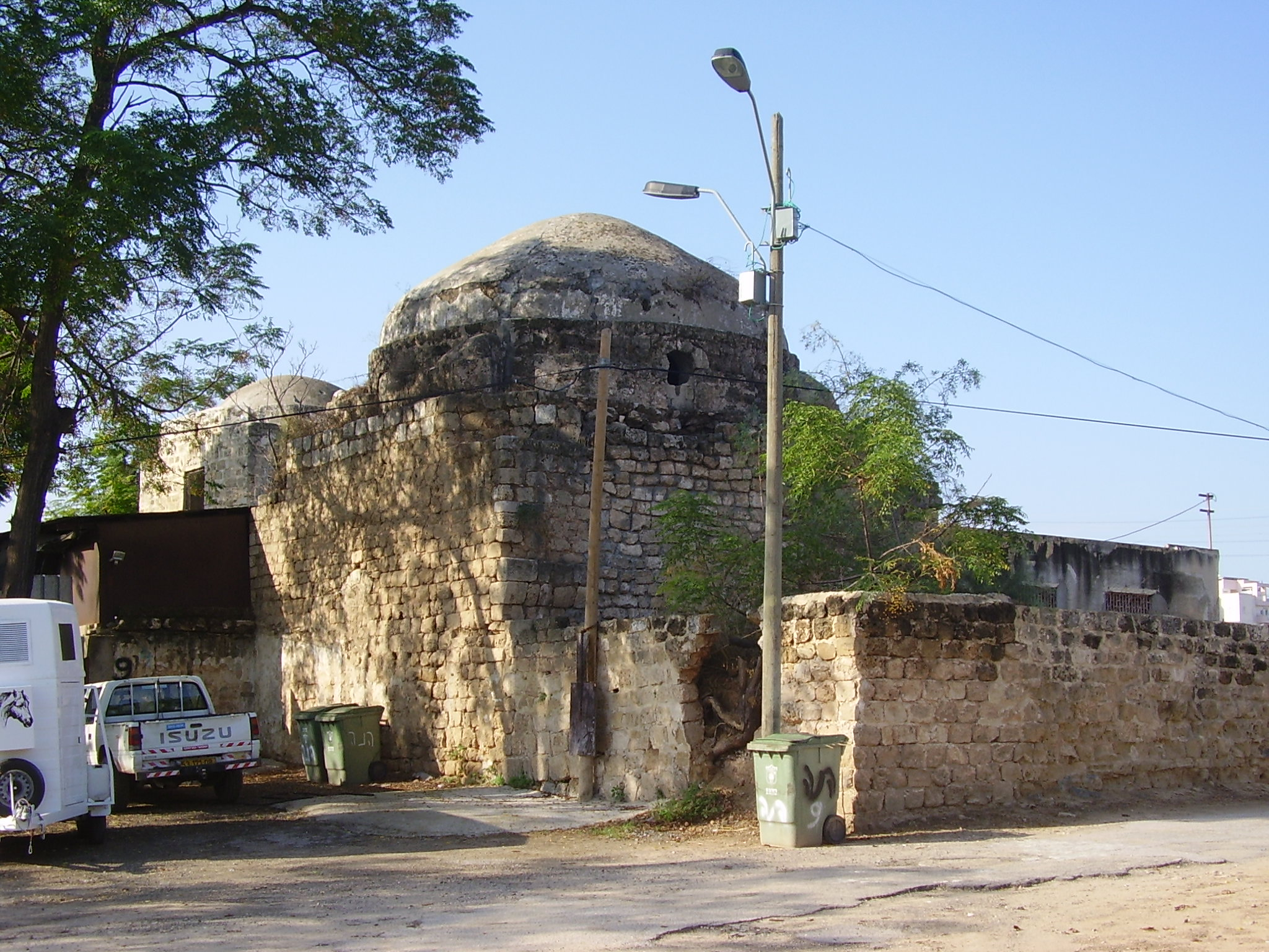 old mosque in salame (now kfar shalem in tel aviv)